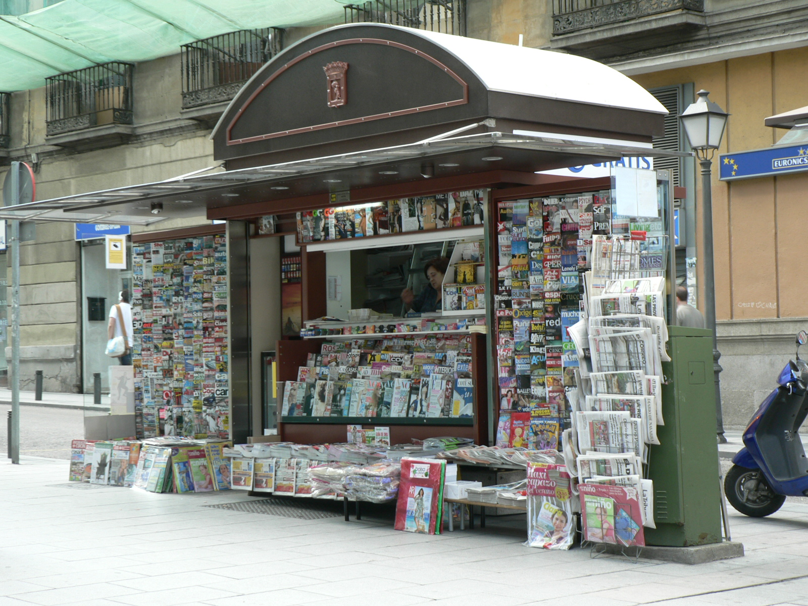 A roadside newstand in Madrid, Spain.